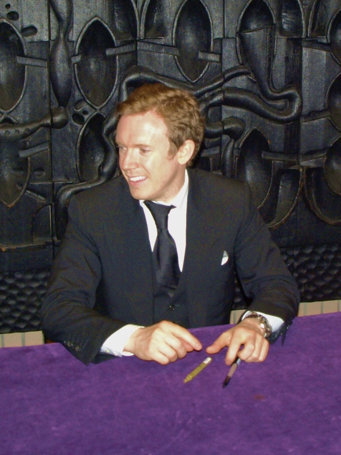 Conductor Daniel Harding waiting to sign autographs for fans after his concert with Mahler Chamber Orchestra in Hong Kong Cultural Center